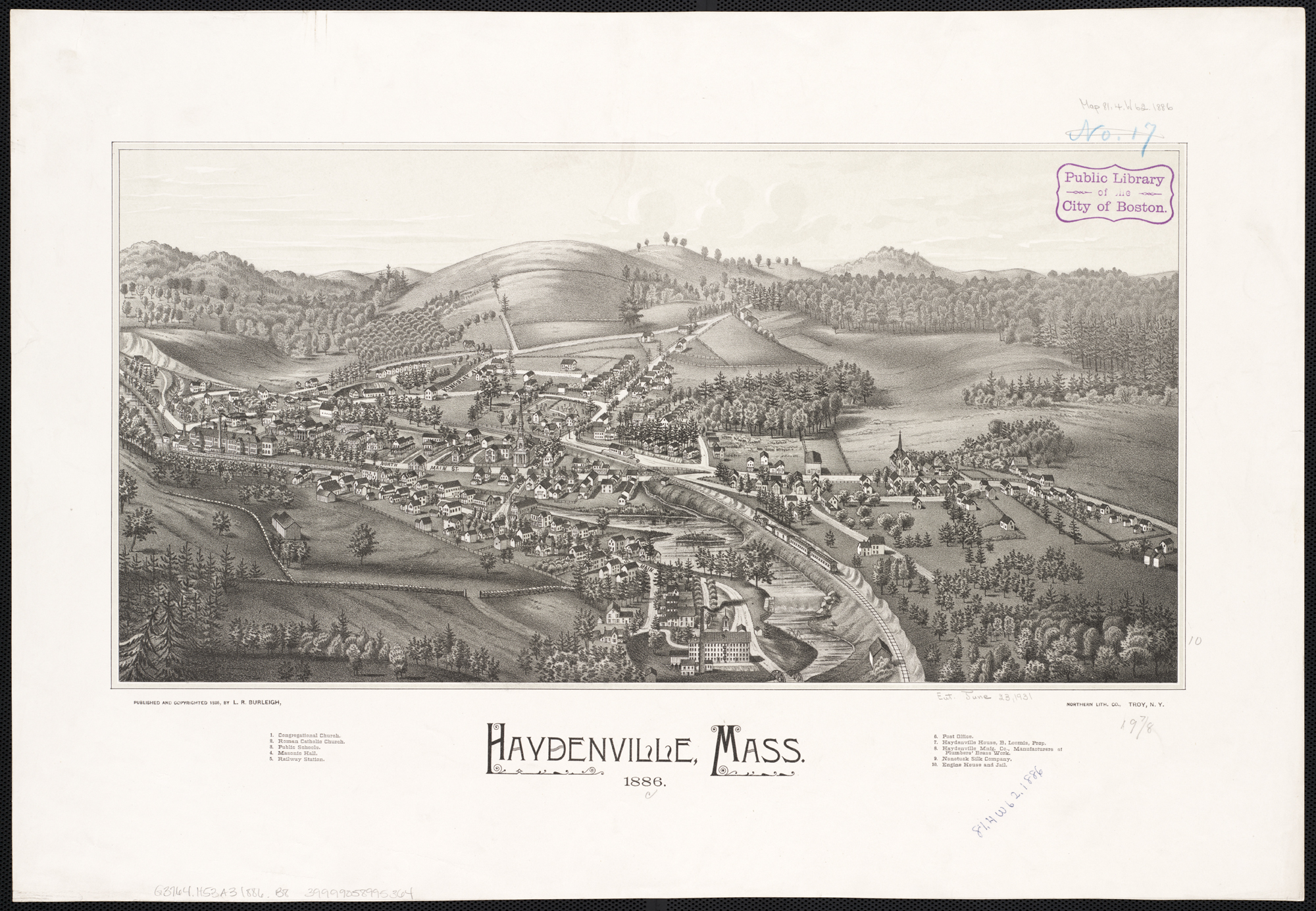 Zoom into this map at . Author: Burleigh, L. R. Publisher: L.R. Burleigh Date: c1886. Location: Haydenville (Mass.) Scale: Not drawn to scale. Call Number: G3764.H53A3 1886.B8